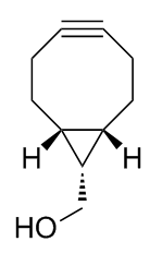 Recreated in chemdraw from 10.1002/anie.201003761 Licensing Recreated in chemdraw from 10.1002/anie.201003761